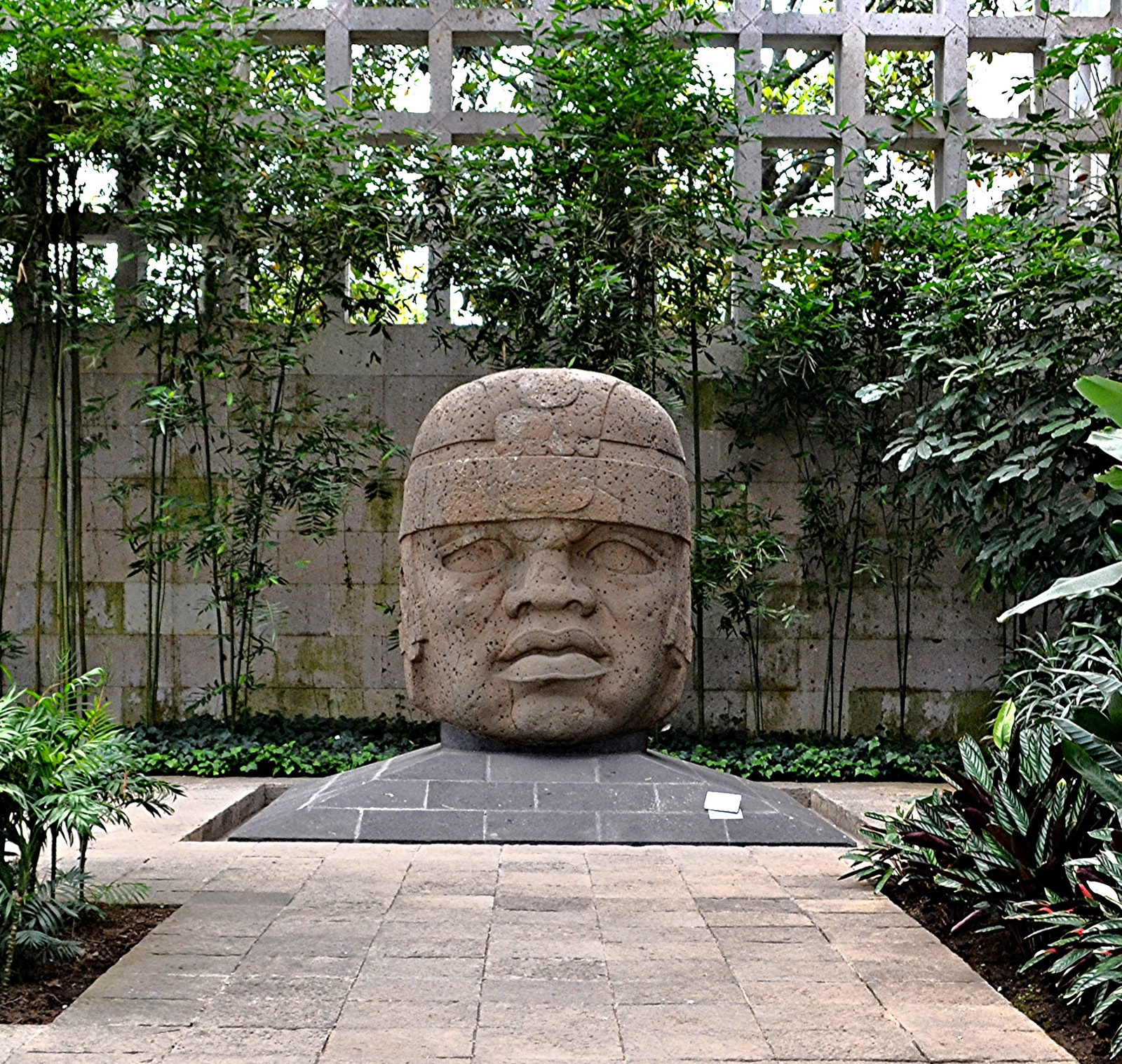 Olmec Head San Lorenzo No. 1, sculpted around 1200-900 BCE